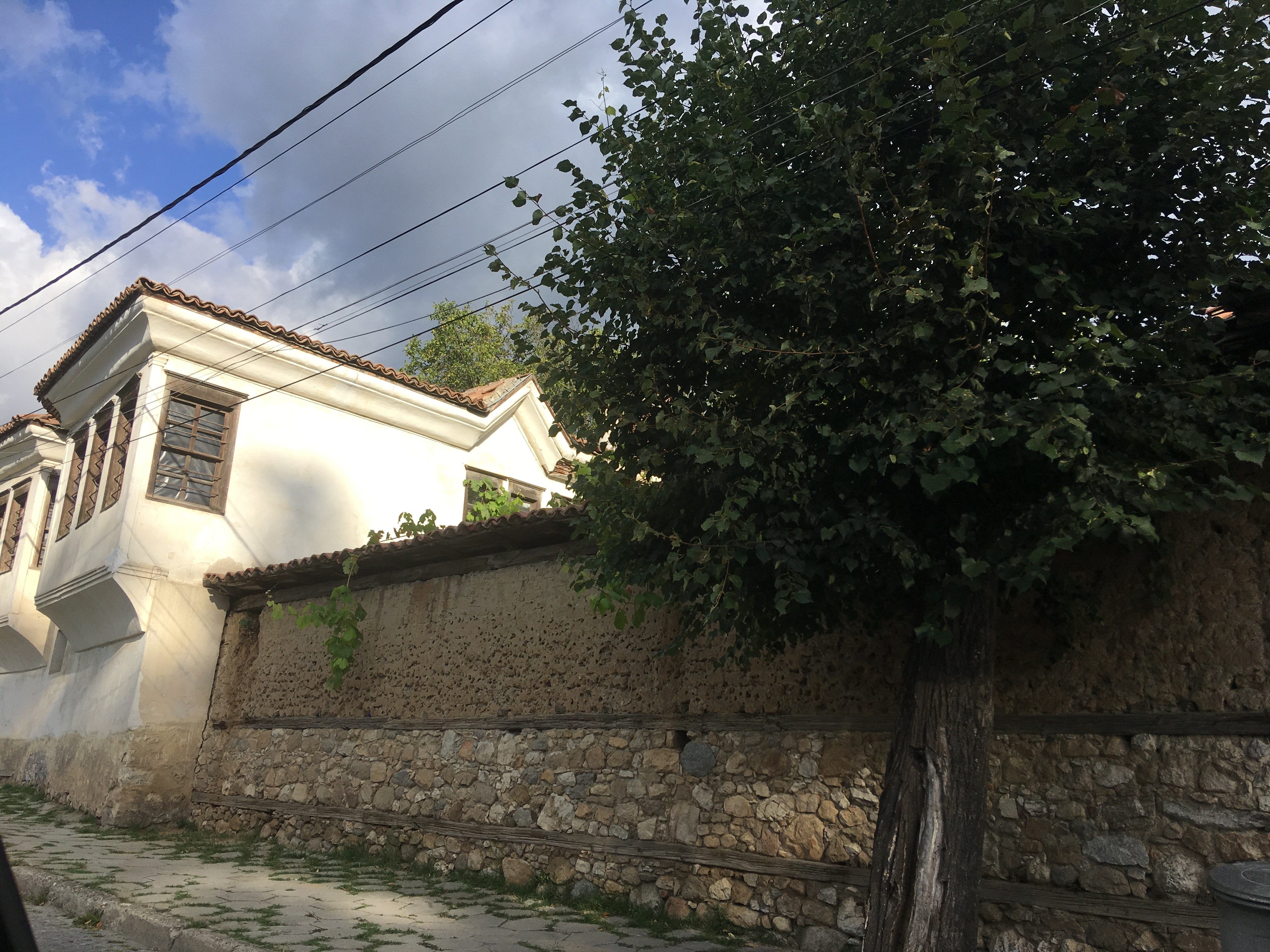 Old house in Gotse Delchev